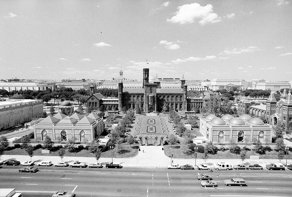 1987. Overall view of Quad and the pavilions of the Smithsonian Institution's two new museums: On the left the Arthur M. Sackler Gallery (Asian Art) (AMSG) with pyramided roof, and on the right the National Museum of African Art (NMAfA) with domed roof. In the center is the Enid A. Haupt Garden which sits atop the underground museums with the Smithsonian Institution Building (SIB), the "Castle," in the background. Visible to the left behind the Sackler is the copper-domed kiosk which is the public entrance to the S. Dillon Ripley International Center (RC) located on the third and deepest level of the complex. On the far right a portion of the Arts & Industries Building (A&I) and on the far left a portion of the Freer Gallery of Art (FGA) are visible.